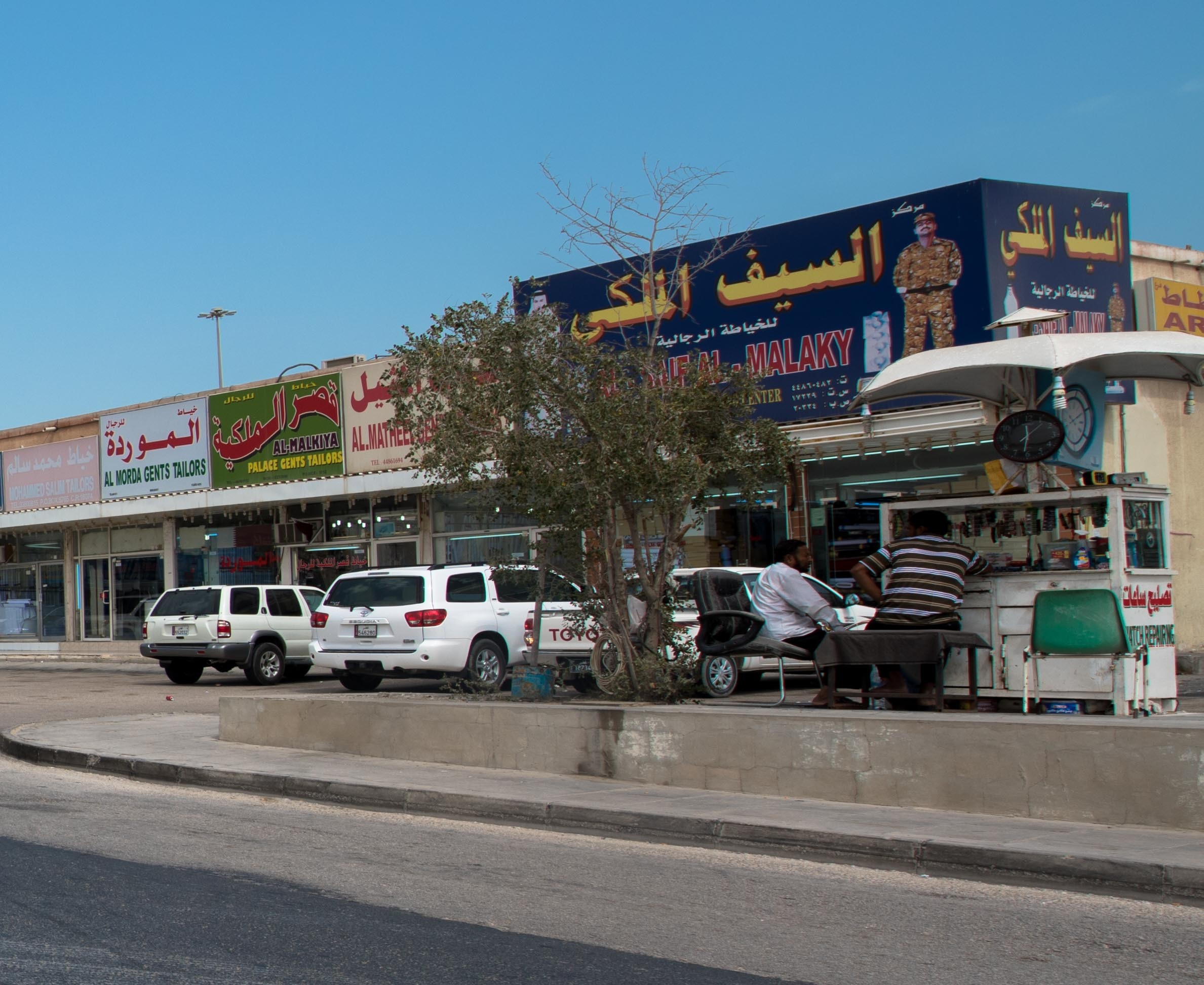 Tailor shops in the Al Luqta district of Al Rayyan, Qatar.